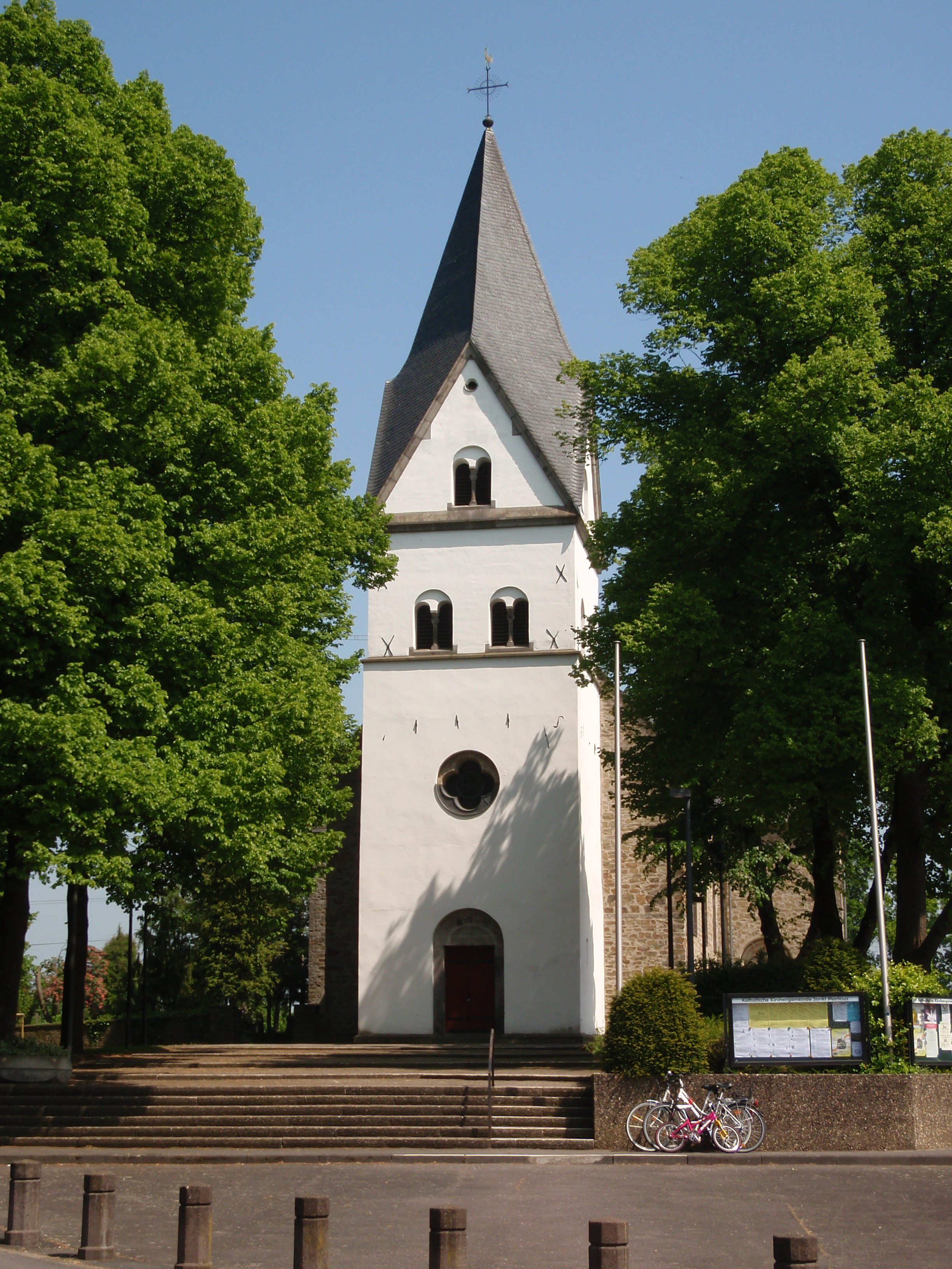 Catholic church St. Martinus in Sankt Augustin-Niederpleis, Germany.